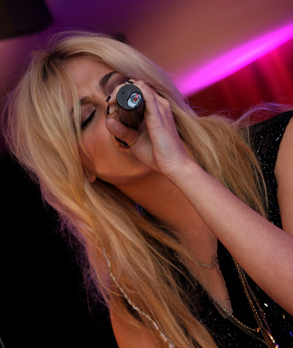 Pixie Lott performing in Oxford in November 2009.